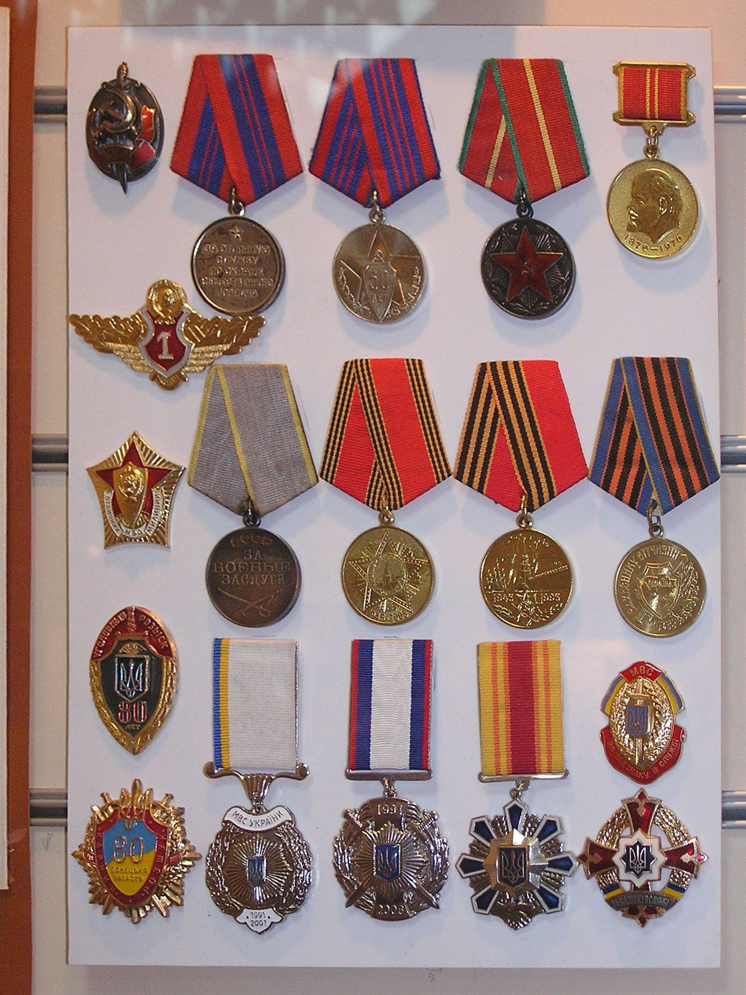 Museum of the History of Donetsk militsiya